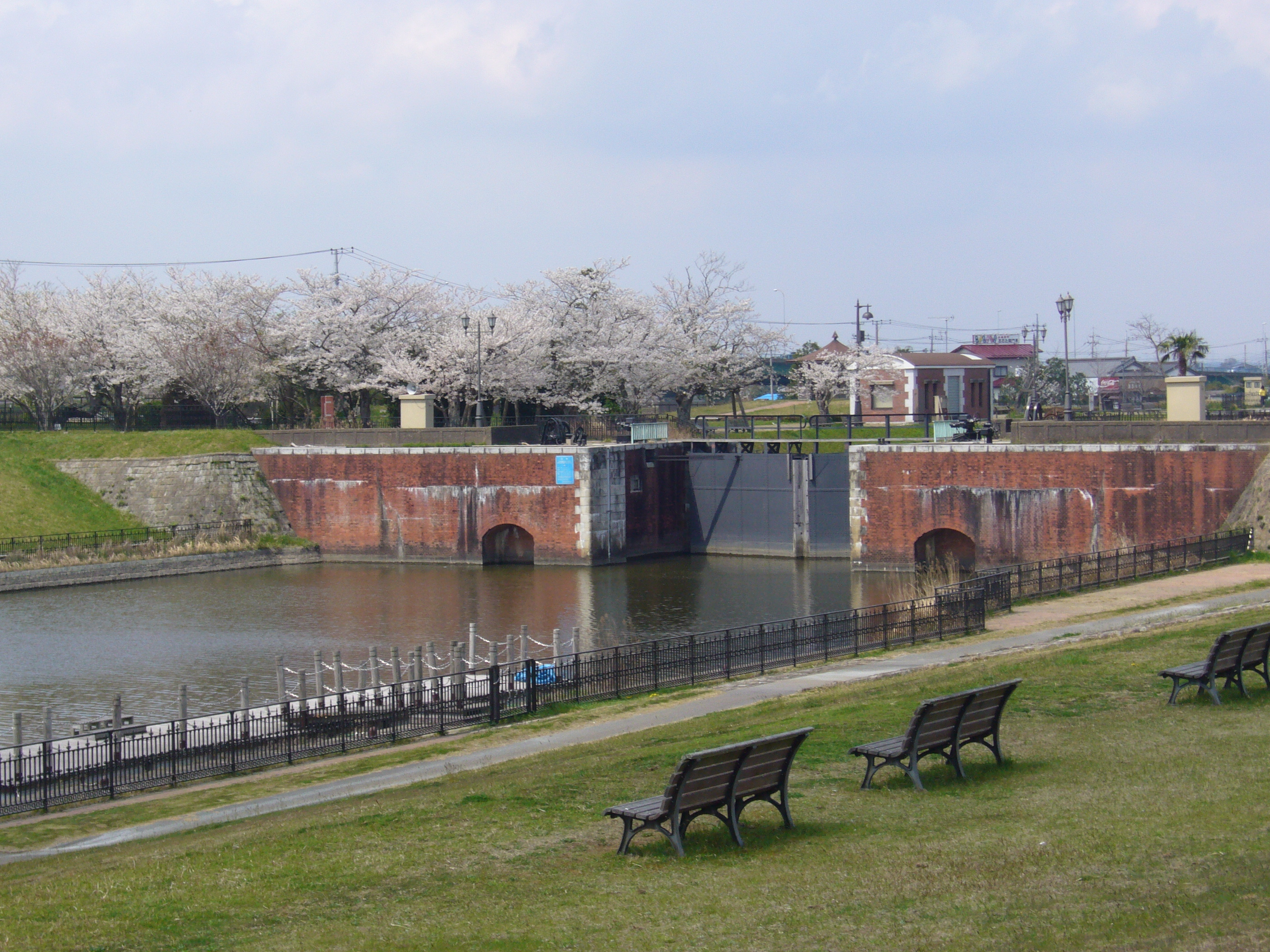 Yokotone Lock seen from Katori City, Chiba Prefecture, Japan